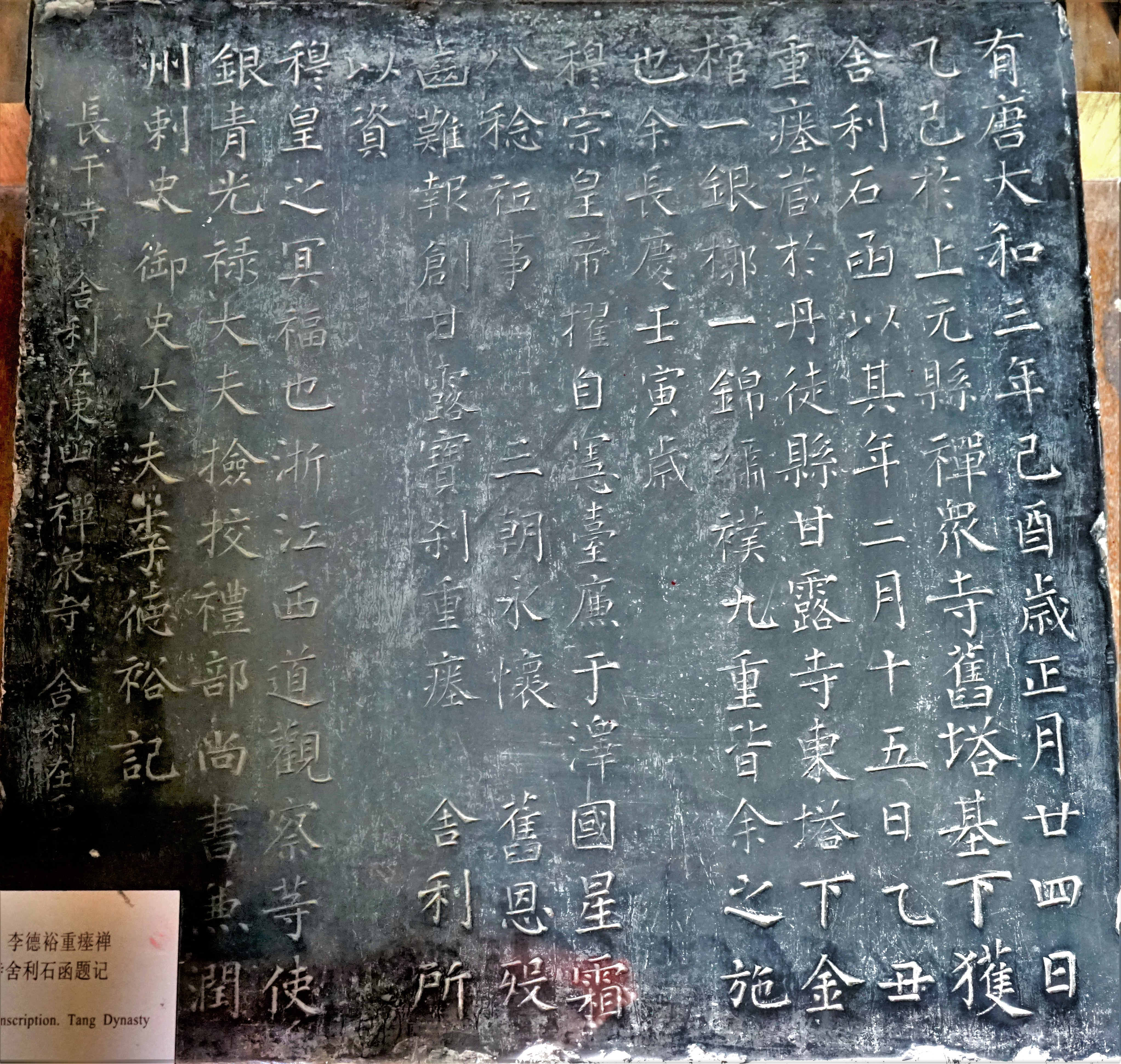 Li Deyu's inscription